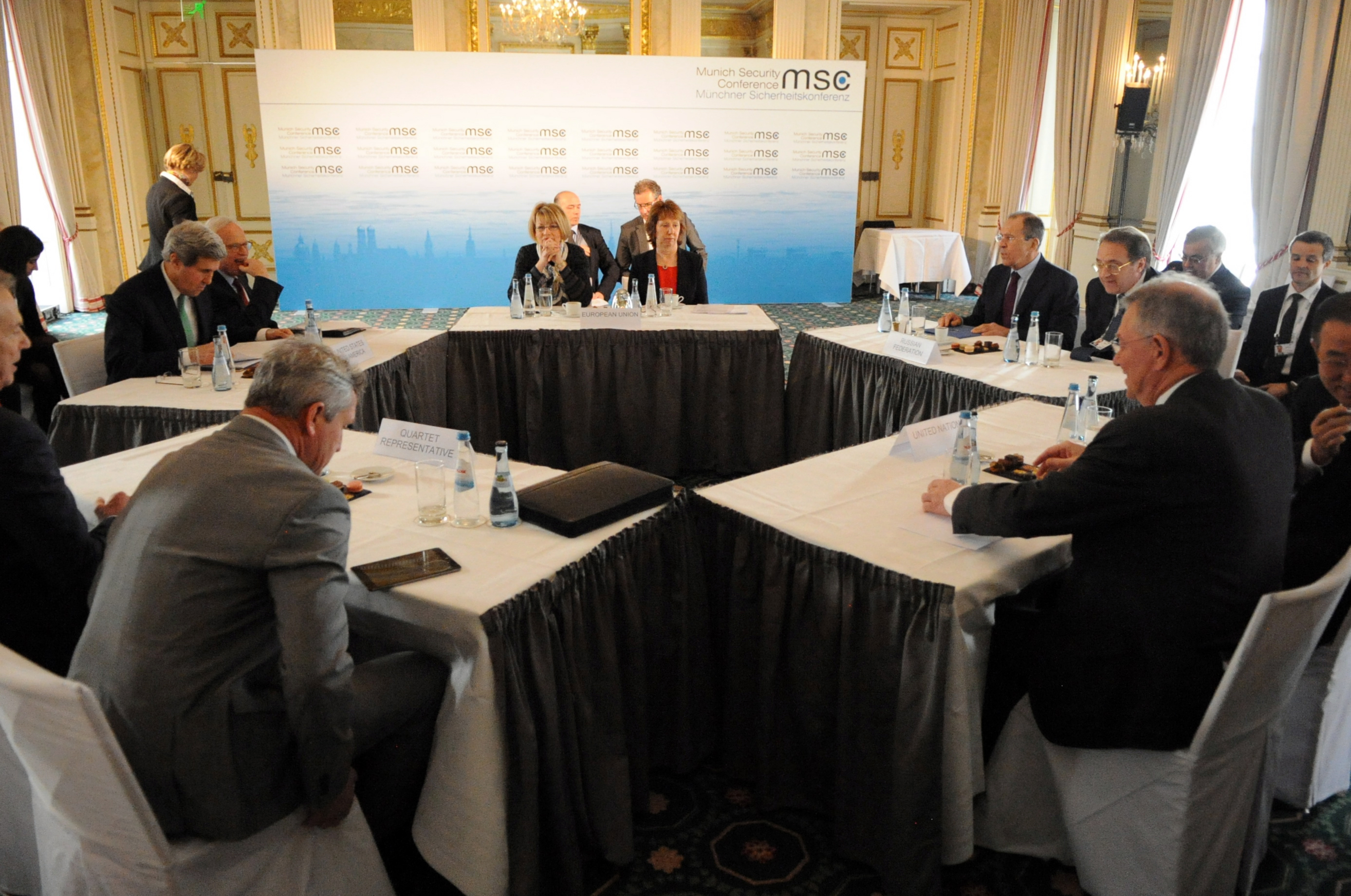 Members of the Quartet on the Middle East -- including U.S. Secretary of State John Kerry, EU High Representative Catherine Ashton, Russian Foreign Minister Sergey Lavrov, UN Secretary-General Ban Ki-moon, and Special Envoy Tony Blair -- sit down for a meeting on the sidelines of the Munich Security Conference in Munich, Germany, on February 1, 2014. [State Department photo / Public Domain]